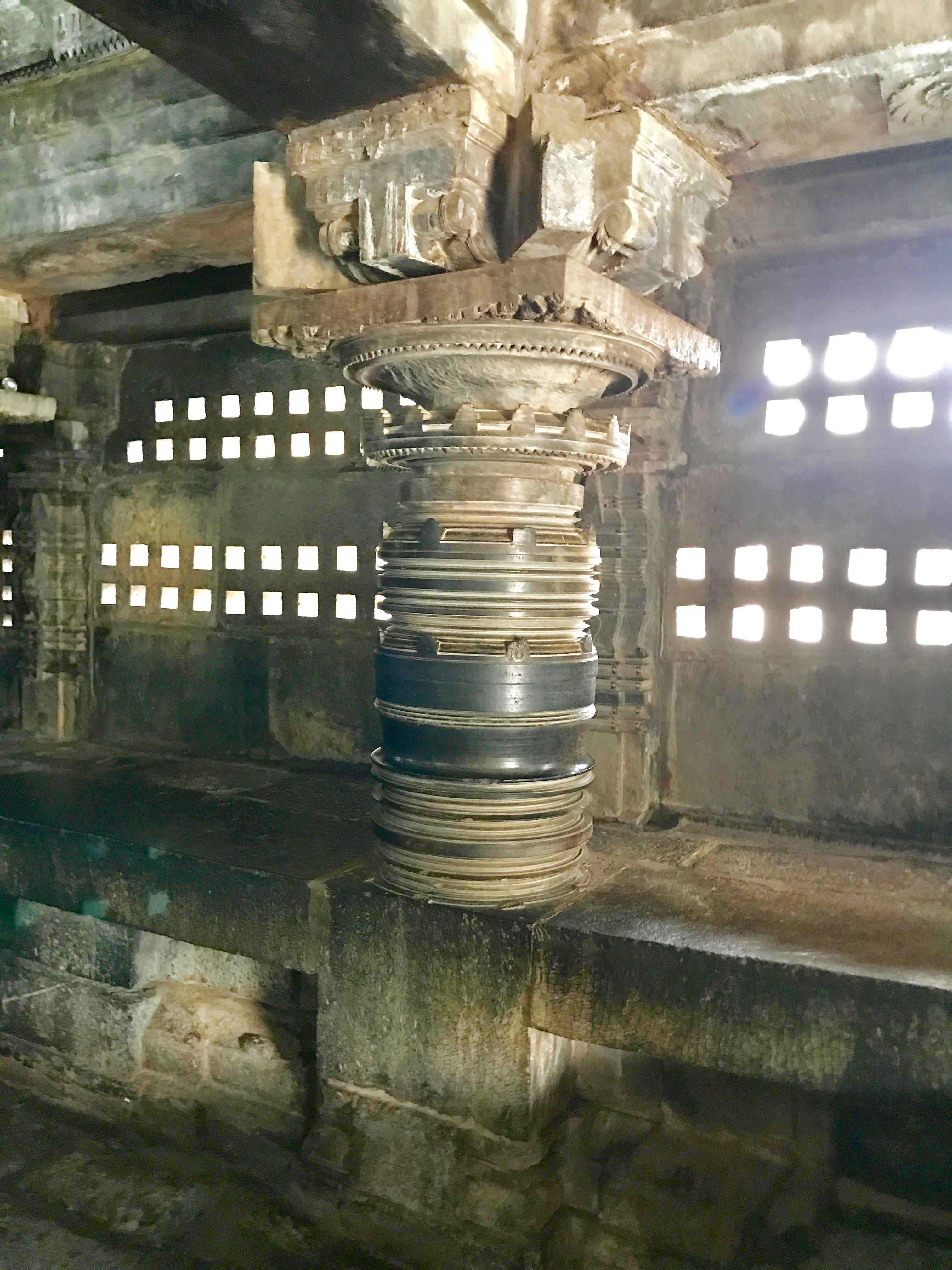 The Chennakesava temple, also called Kesava or Keshava temple, is a Vaishnava Hindu temple. It is located at Somanathapura (Somanathpur) in South Karnataka, in a small village on the banks of the river Cauvery, about 40 km from the city of Mysuru. The temple is one of the finest examples of Hoysala architecture and testament to the sophistication of Hindu art and architecture by the 12th-century. Built by 1268 CE by a commander of Hoysala king Narasimha III, it illustrates fine carvings with extraordinary details. The interior of the temple show richly carved reliefs, lathe spun pillars with fine details (elephant powered lathe), and panels showing legends from Hindu texts. Along with Vishnu avatars, various Hindu gods and goddesses of Shaivism, Shaktism and the Vedas are included. The largest carvings are those related to Vishnu.